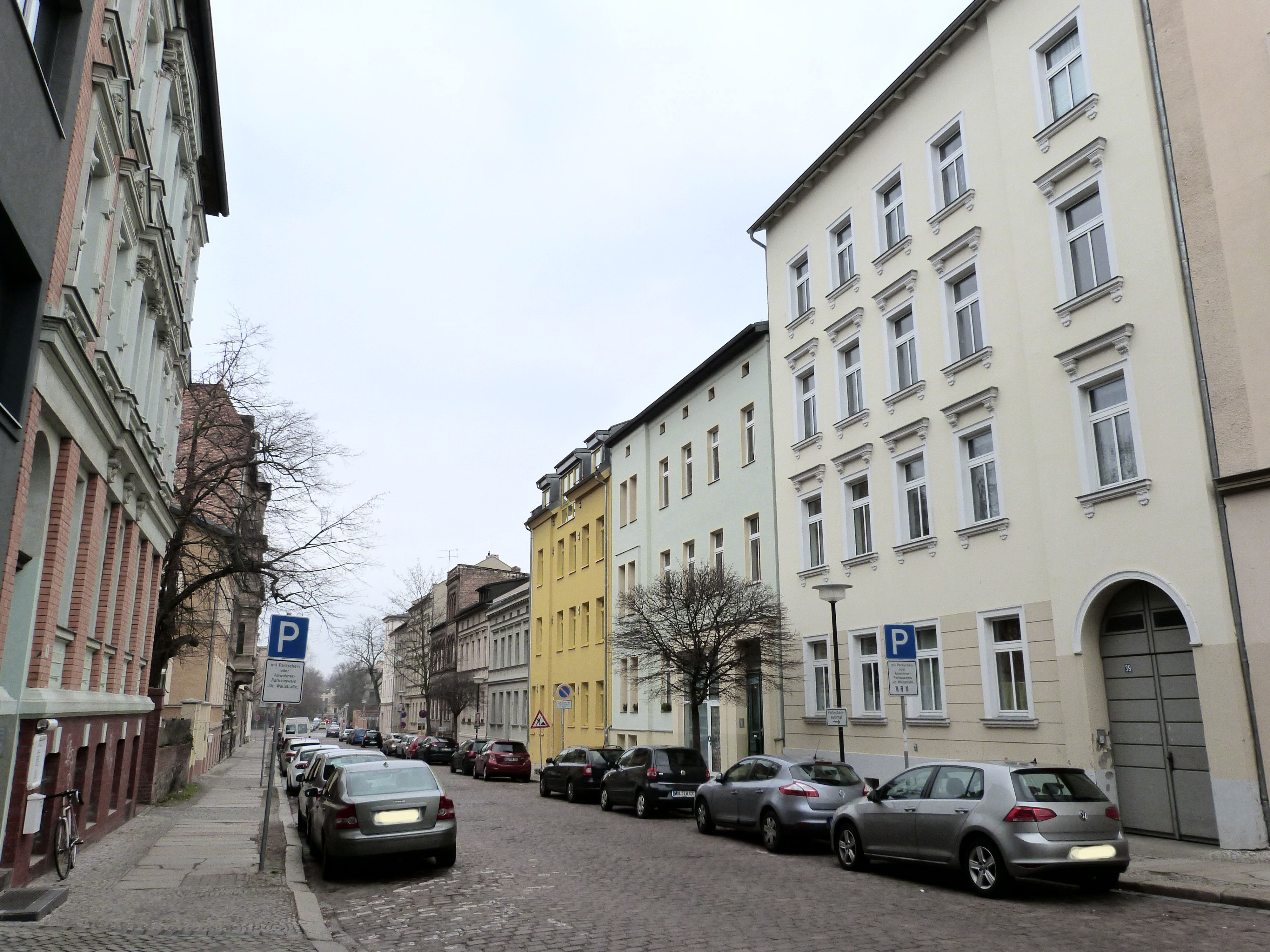 Street Georg-Cantor-Straße, southern part, Halle (Saale)